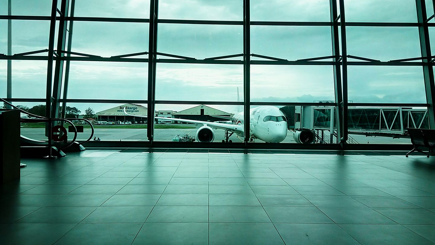 A Malaysia Airlines A350 in Kota Kinabalu International Airport.